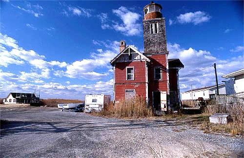 Mispillion Lighthouse in Delaware not extinct.